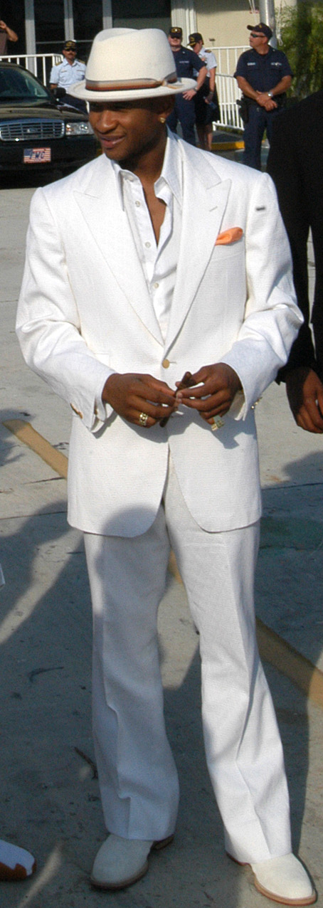 MIAMI (Aug. 29, 2004) -- MTV 2004 Video Music Awards performer Usher poses for a picture at ISC Miami. USCG photo by PA2 Anastasia Burns.